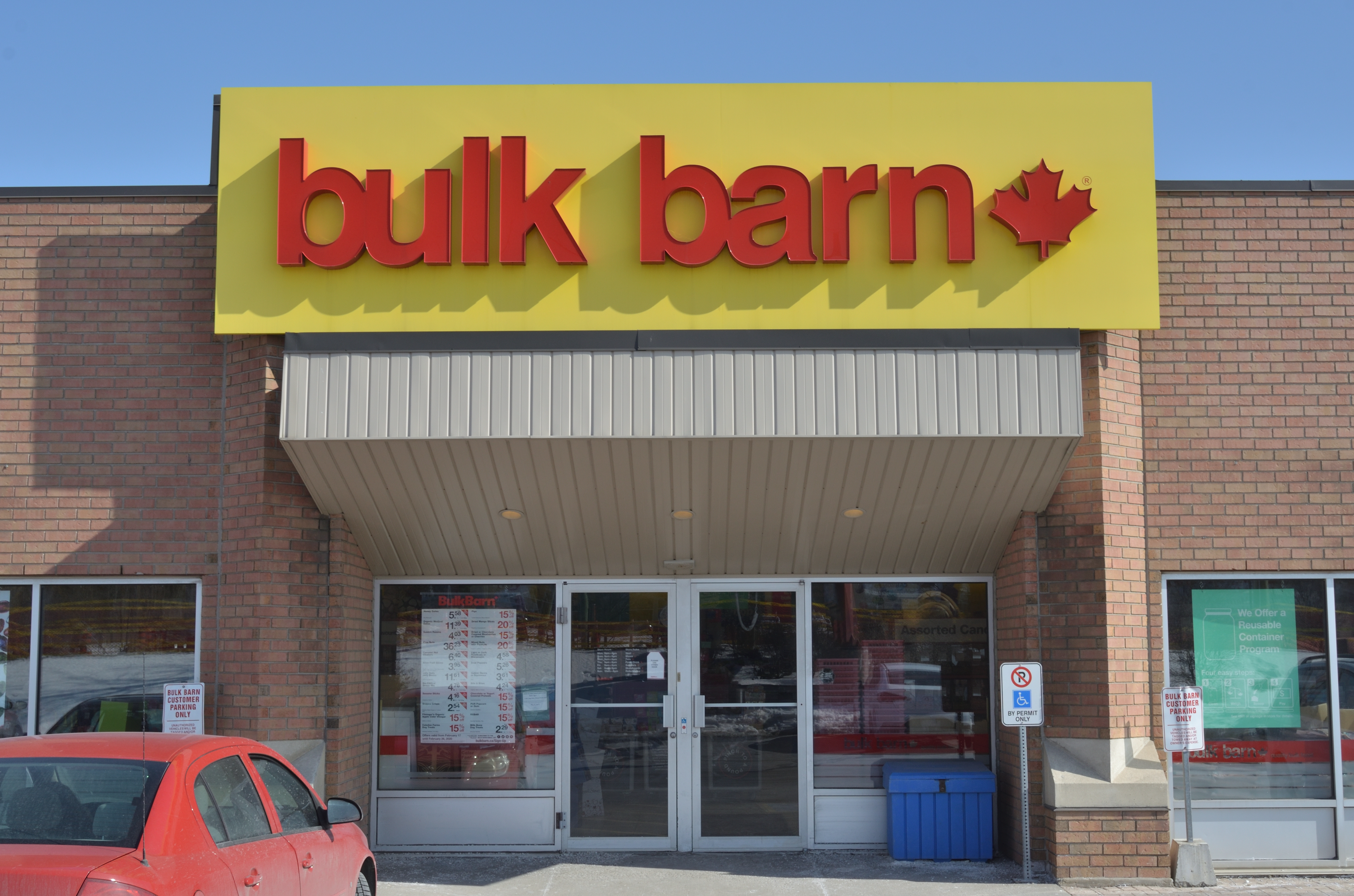 Bulk Barn -Address: 11005 Yonge St, Richmond Hill, ON L4C 0K7